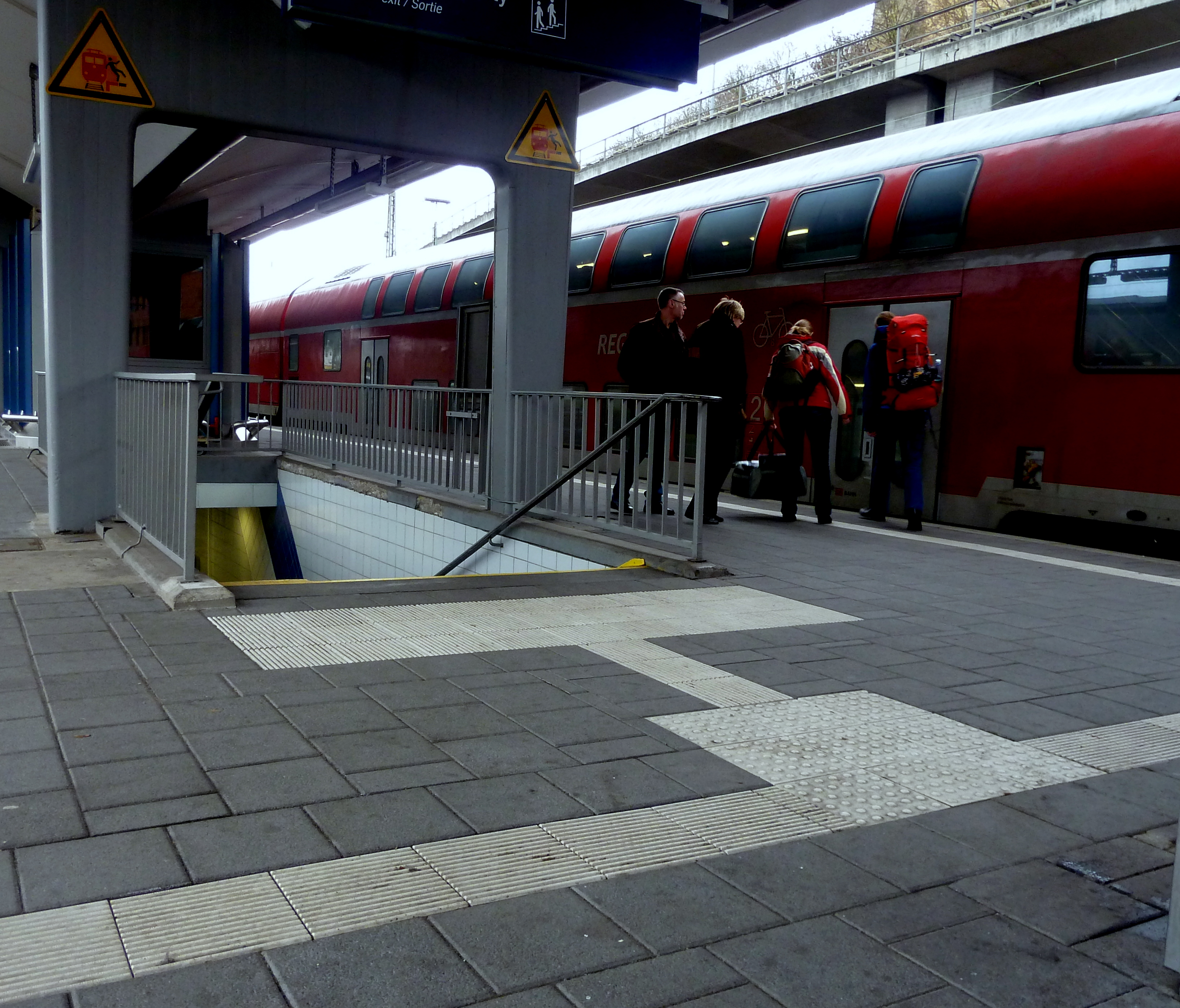 Tactile paving in Koblenz, main station